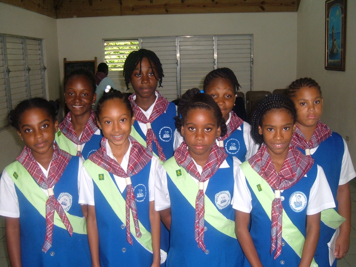 doctobird scouts